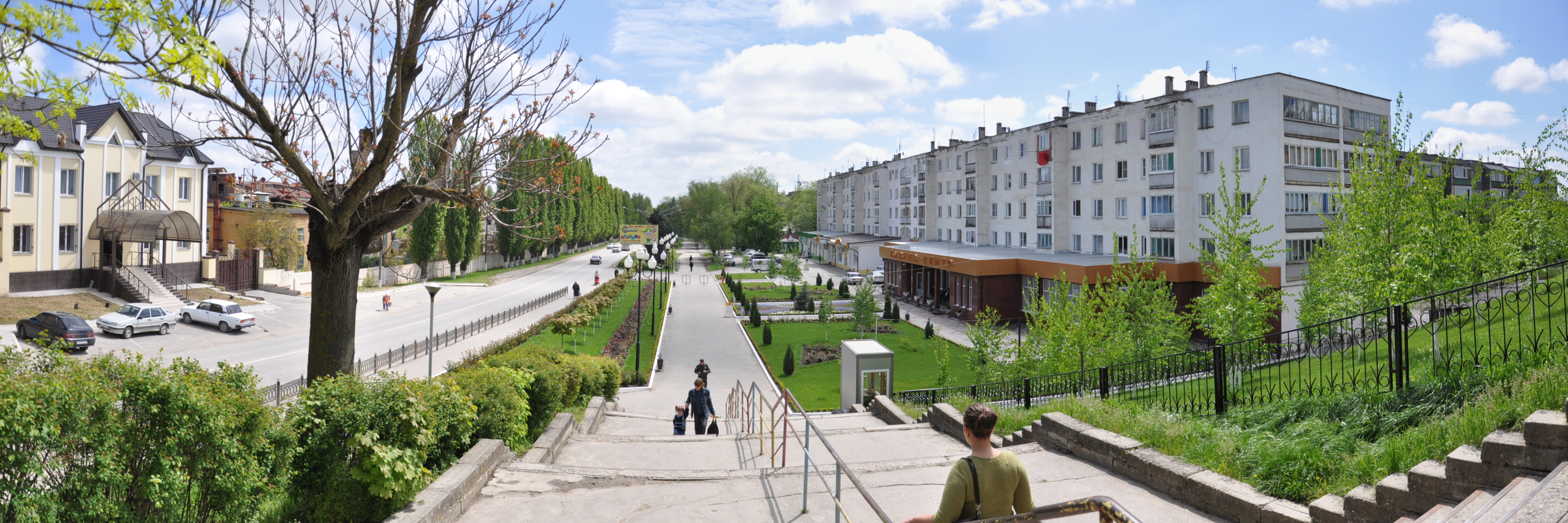 ремзаводская яма